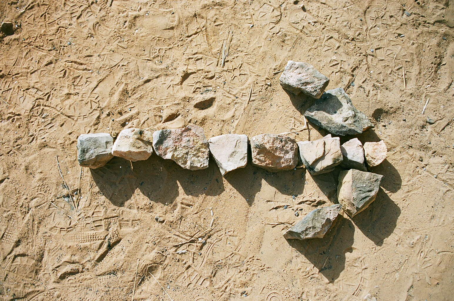 Arrows in the Israeli desert (arranged for photographic reasons)